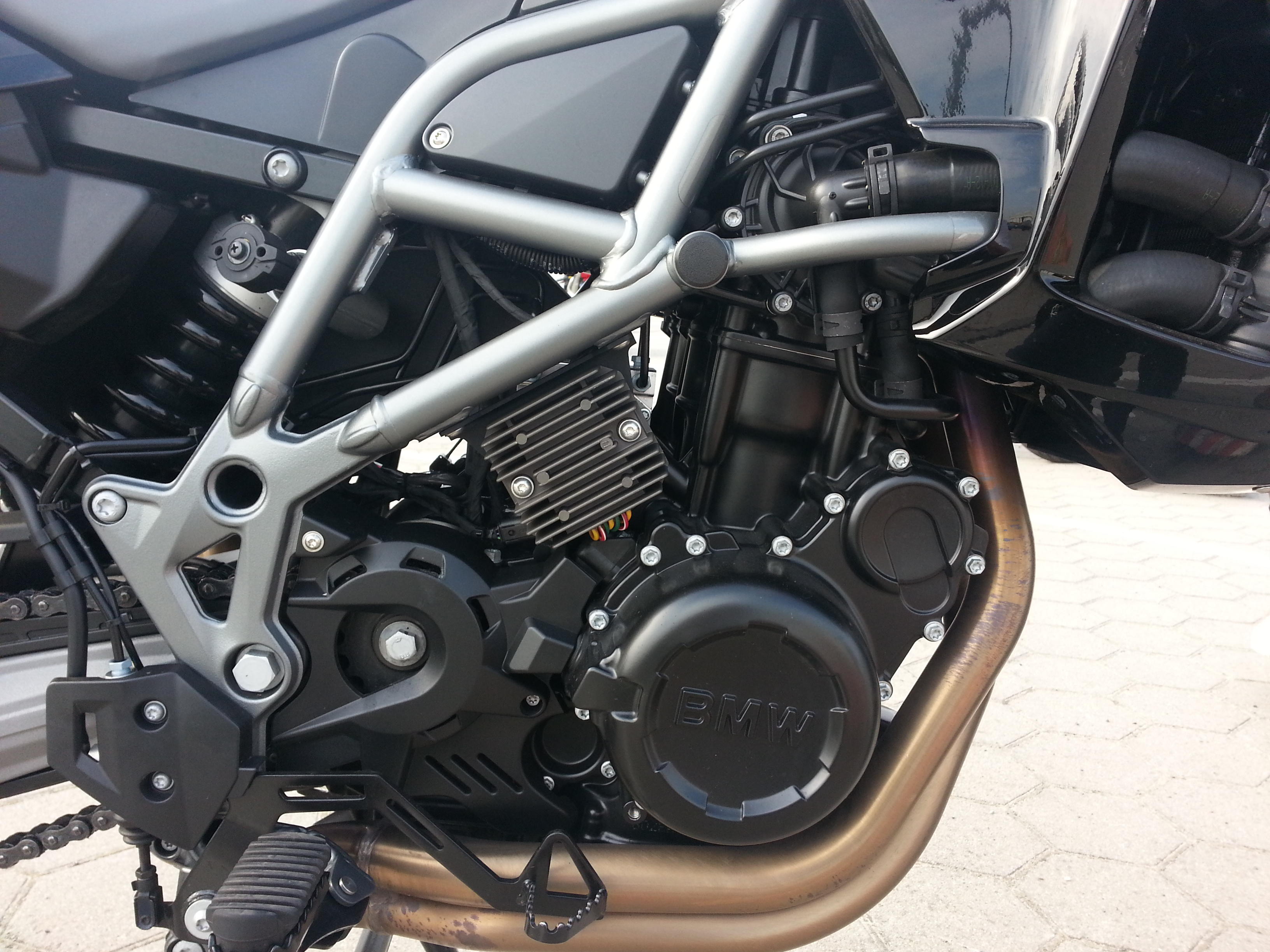 Motorcycle engine by Austrian manufacturer Rotax